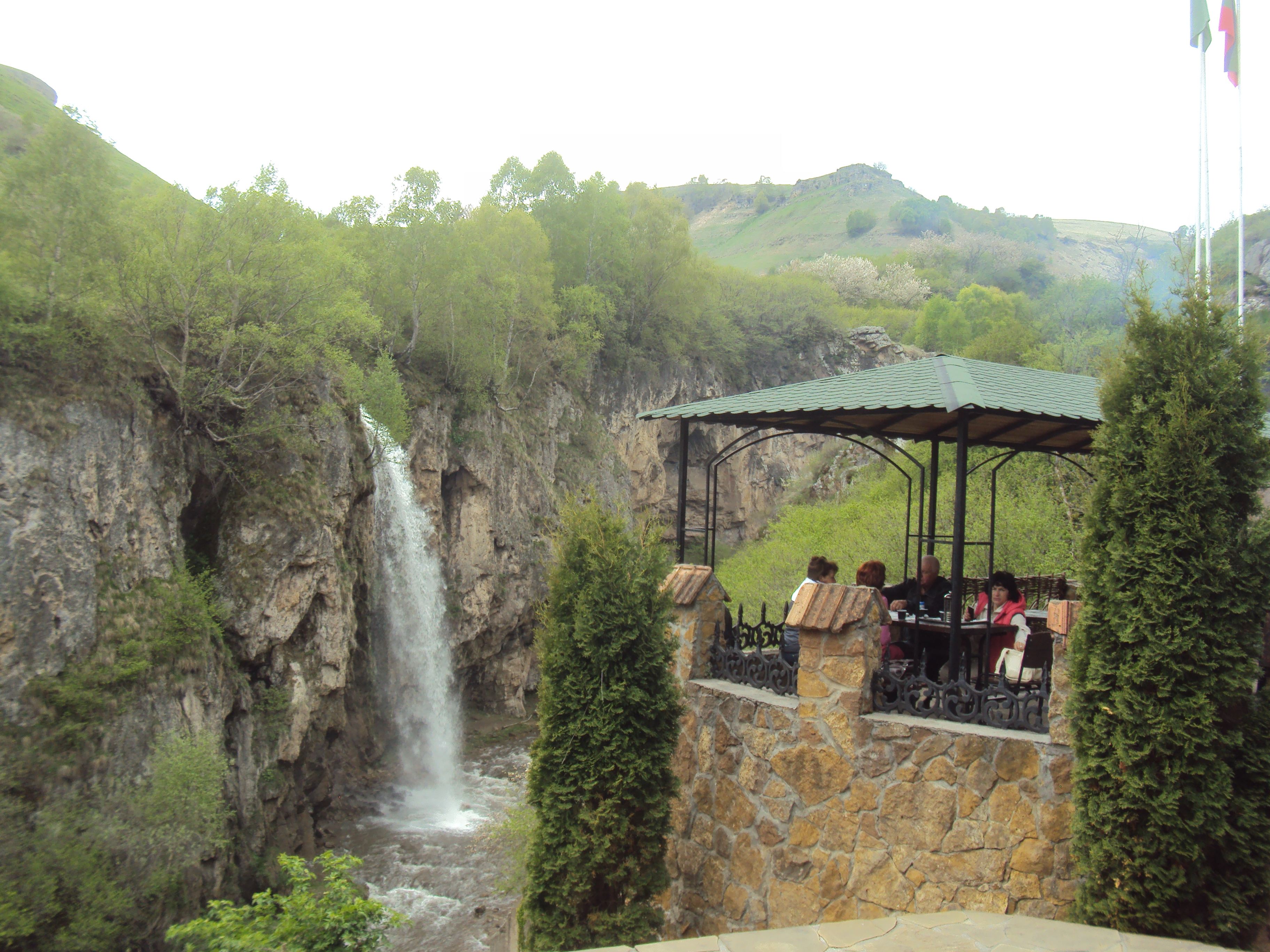 Honey falls, malokaratchaevsky district